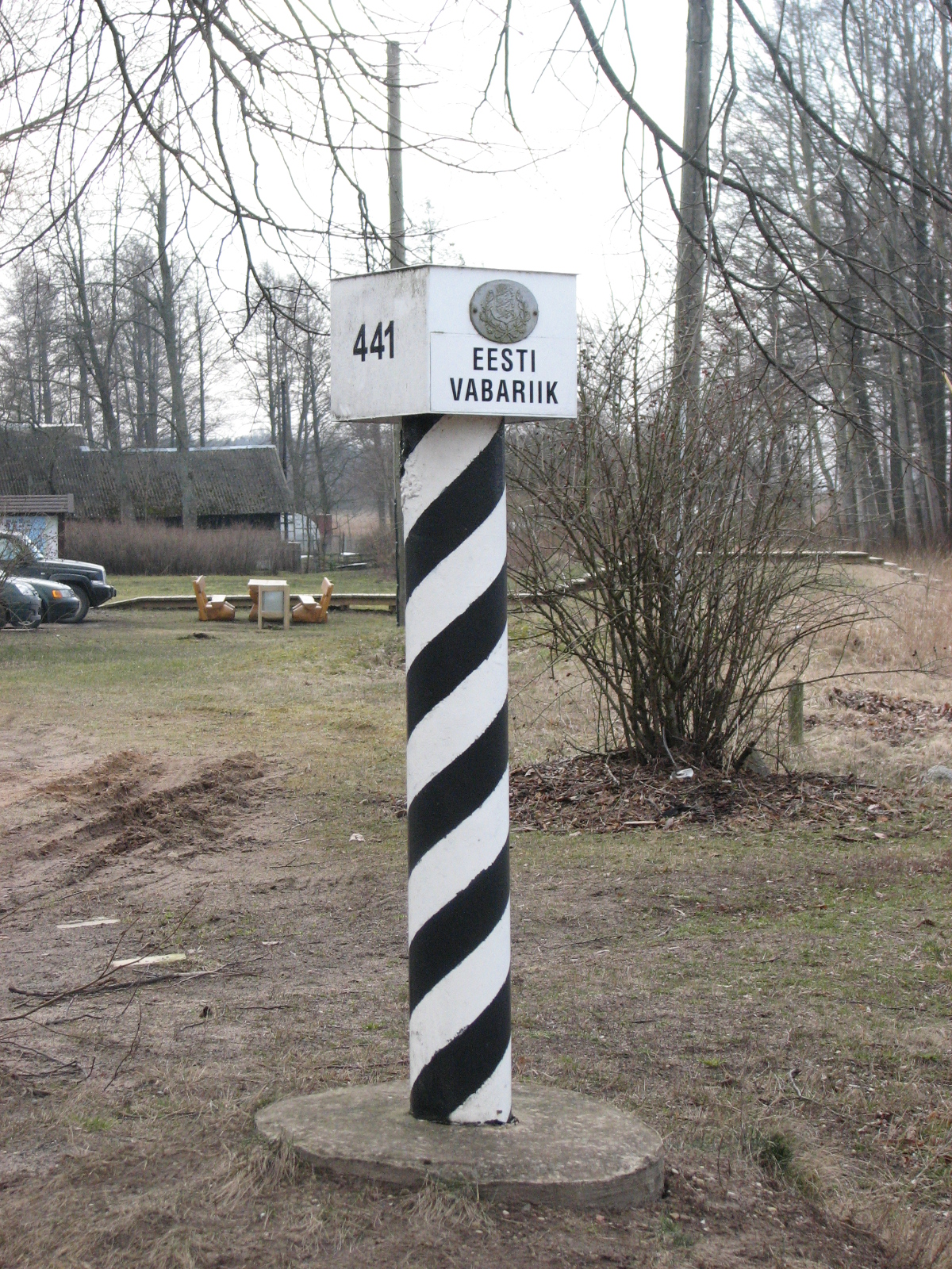 Ikla, Estonia